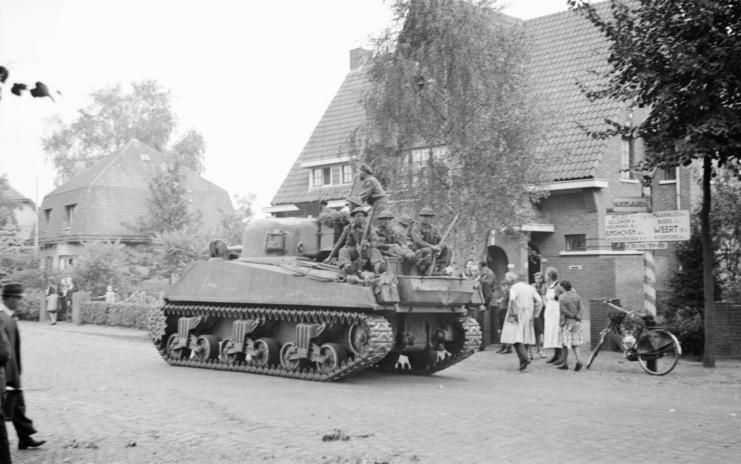 A Sherman tank of 11th Armoured Division passing through Leende, Holland, 22 September 1944. A Sherman tank of 11th Armoured Division passing through Leende, 22 September 1944.